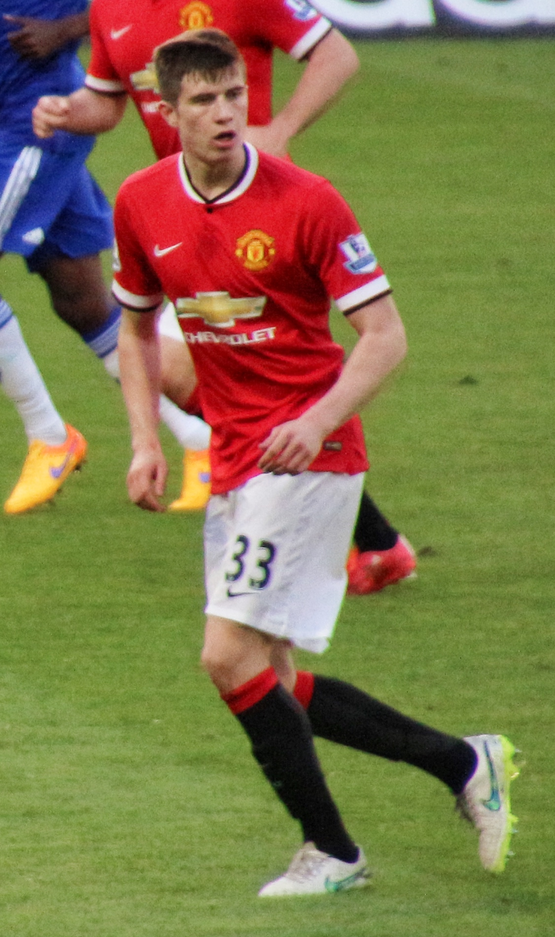 Chelsea 1 Man Utd 0